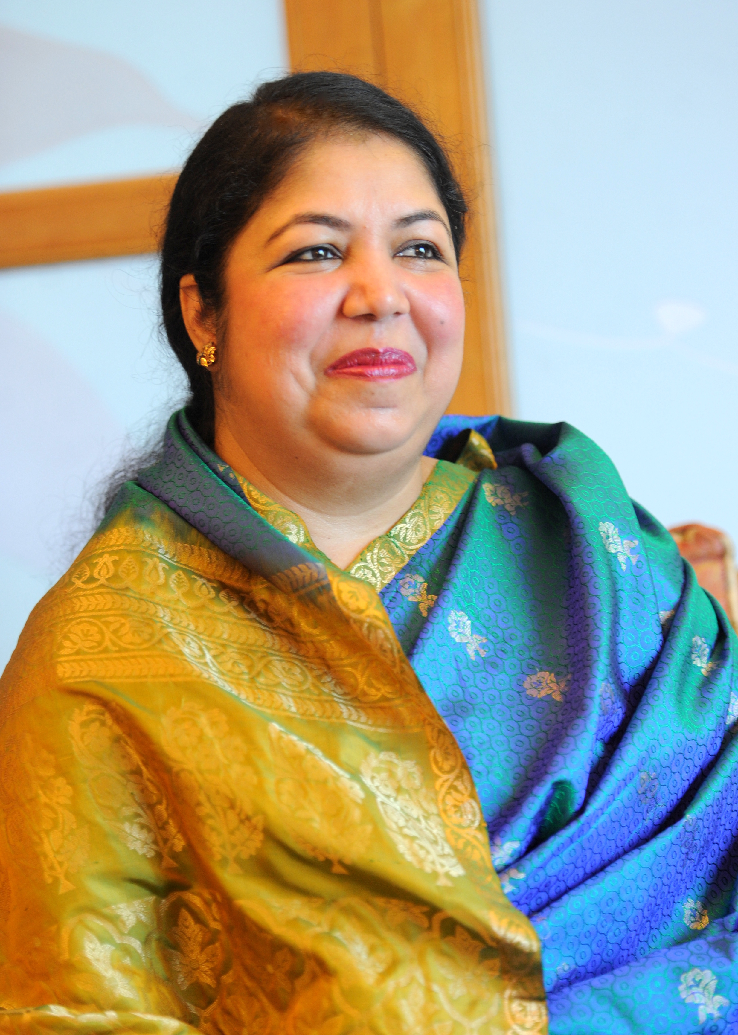 Photograph of Shirin Sharmin Chaudhury